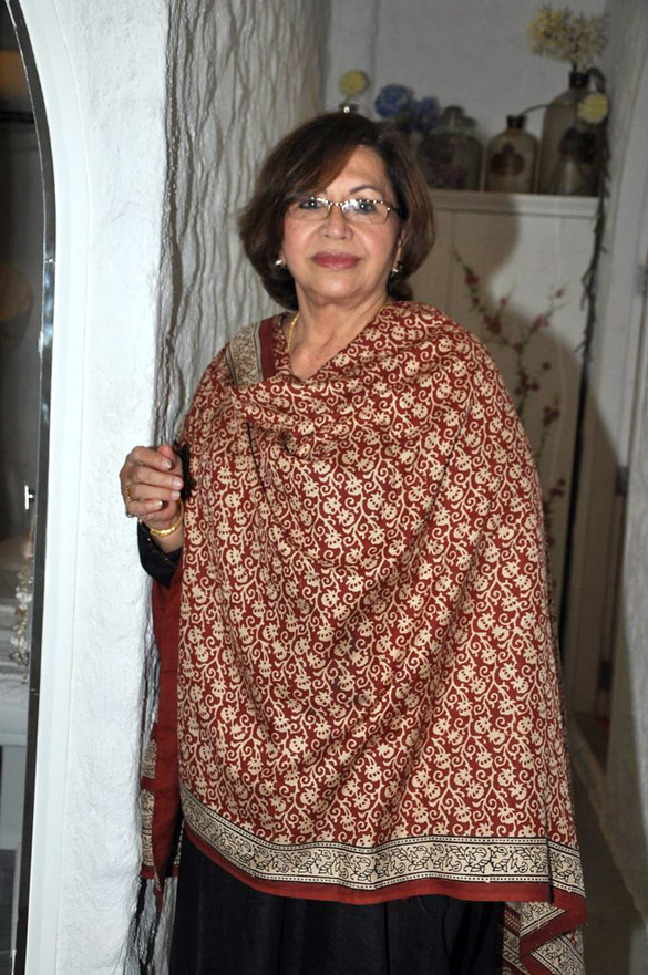 Helen at Kallista Spa opening